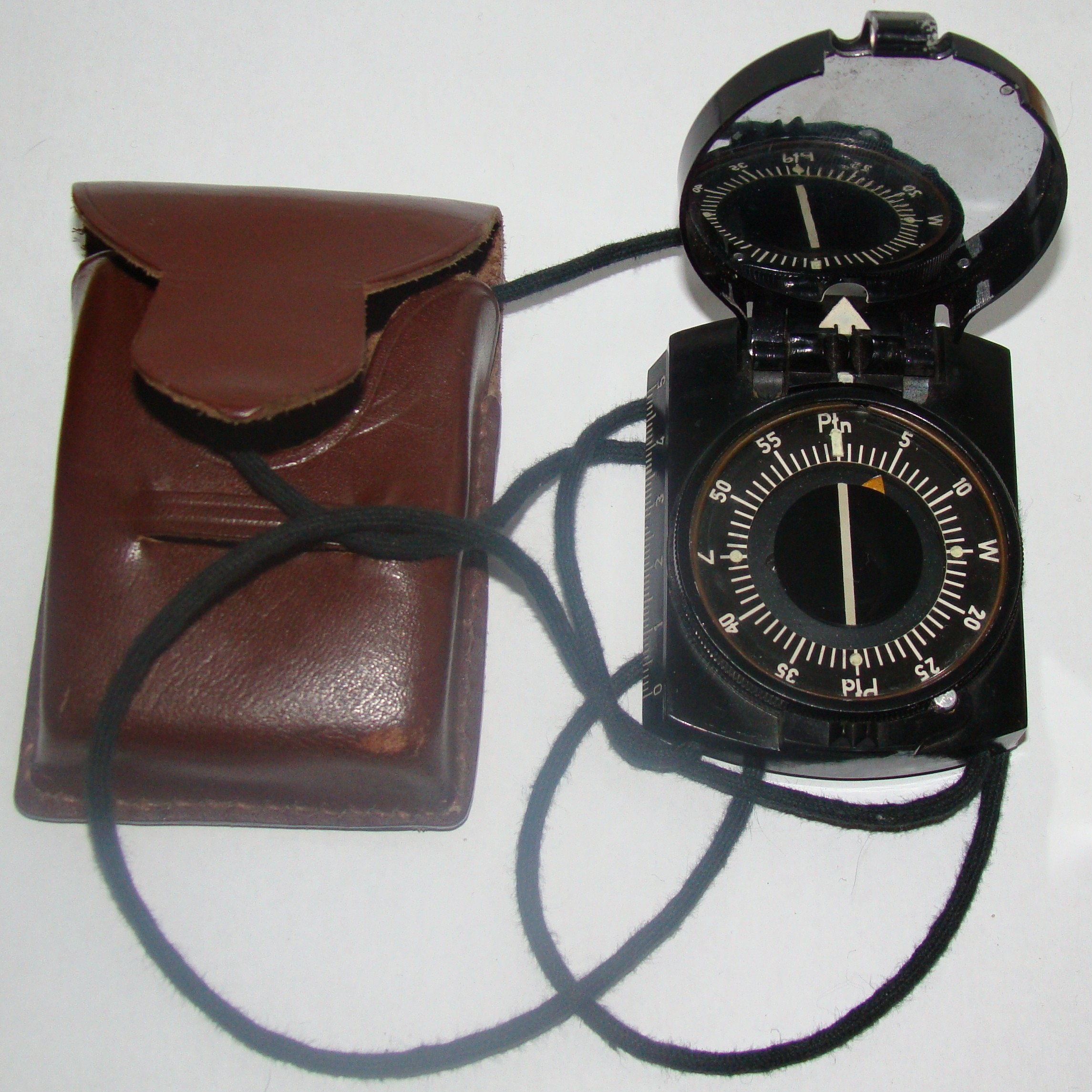 Compass AK